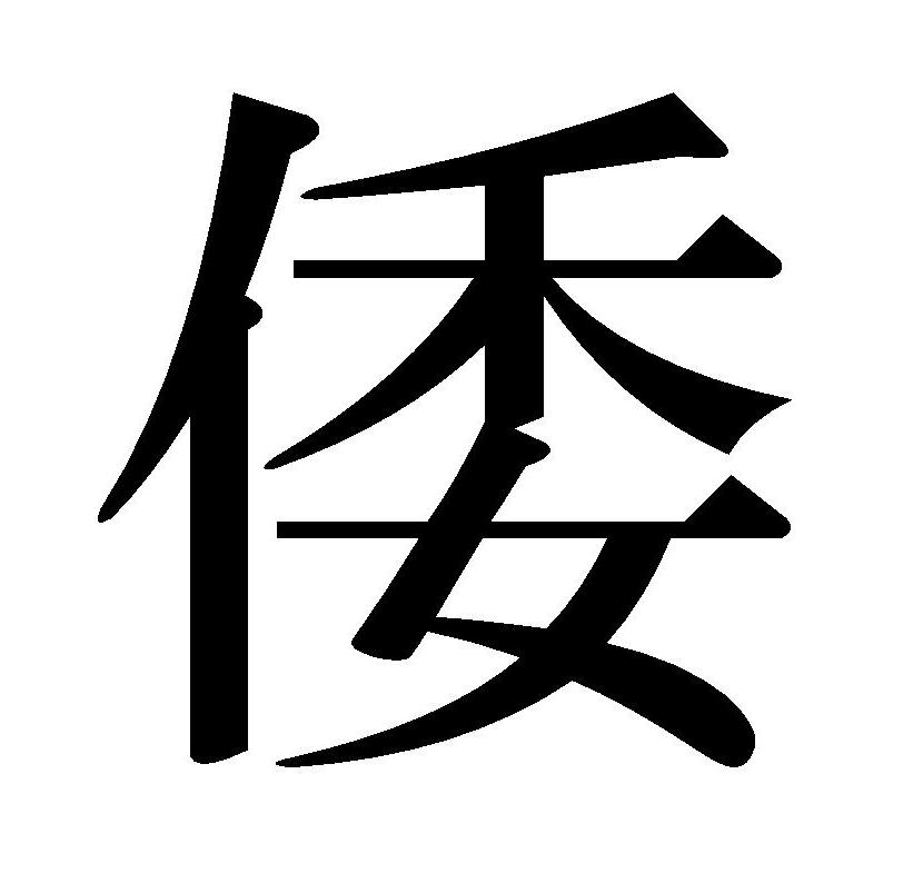 Ideogram for Wa (ancient name of Japan)